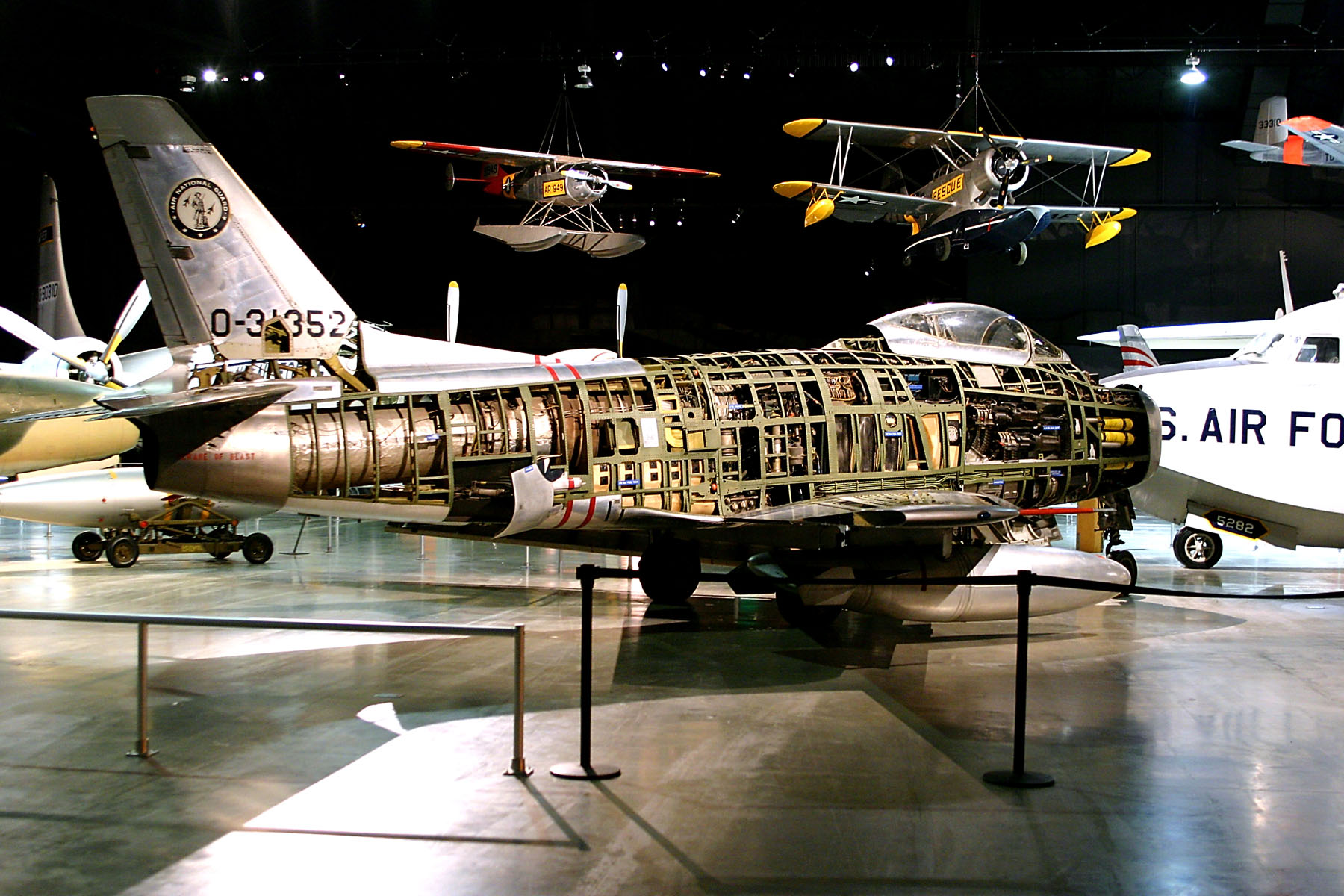 A U.S. Air Force North American F-86H-10-NH Sabre (s/n 53-1352) in the Cold War Gallery at the National Museum of the United States Air Force, Dayton, Ohio (USA).